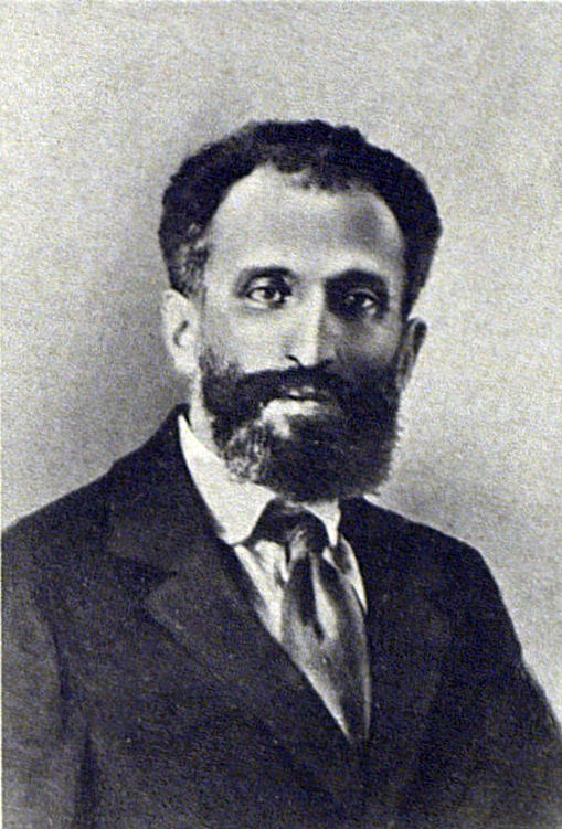 Piatnitsky, Osip Aaronovitch